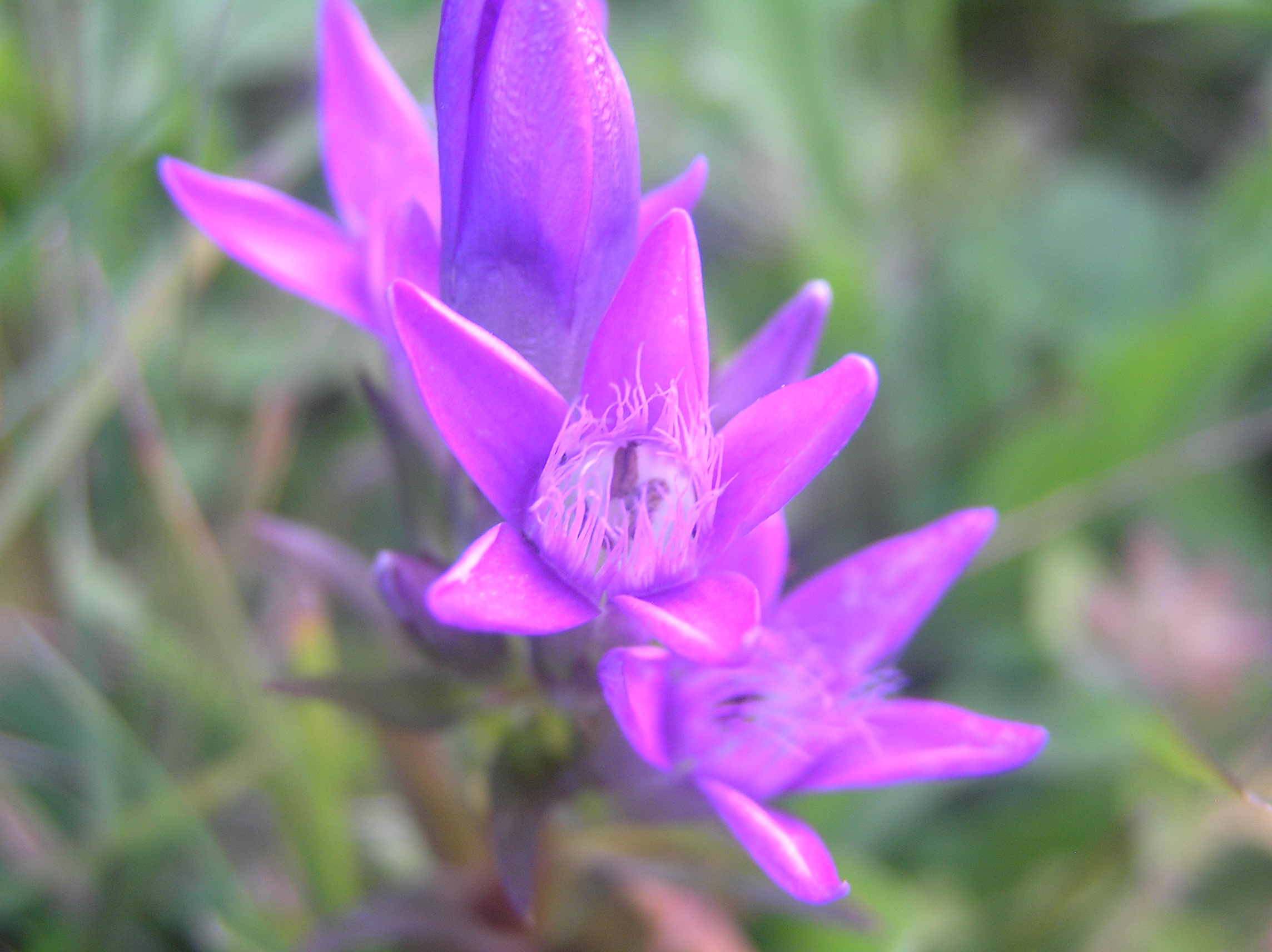 Gentianella praecox subsp. bohemica, PP U Žlíbku near Protivanov, Czech Republic